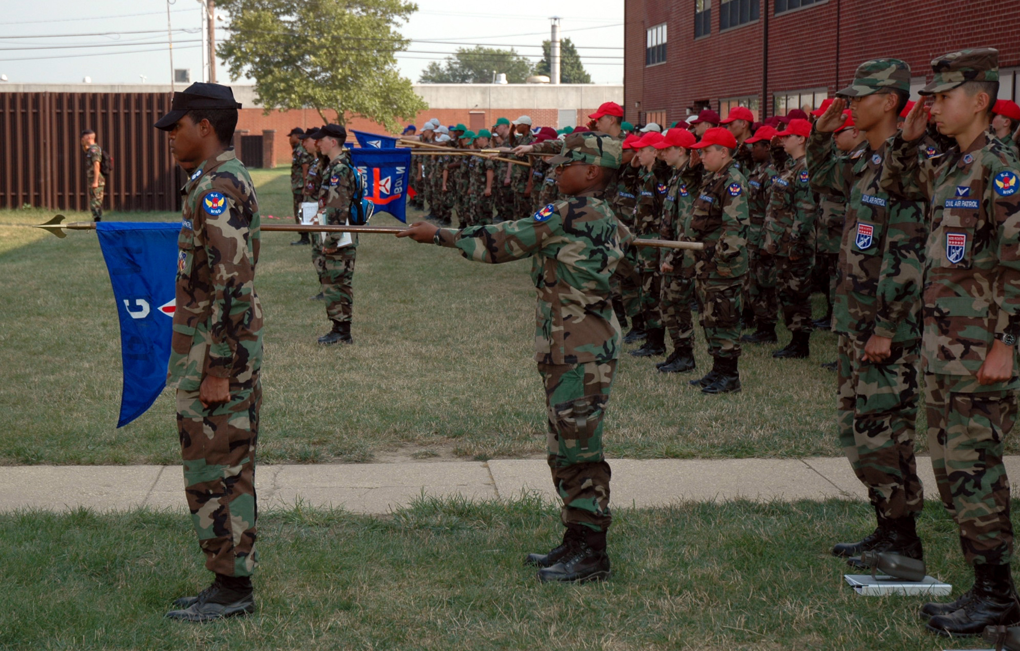 Civil Air Patrol cadets from the New Jersey Civil Air Patrol Wing participate in a retreat ceremony marking the end of their duty day at the U.S. Air Force Expeditionary Center on Fort Dix, N.J., July 29, 2008. Civil Air Patrol is a volunteer, non-profit auxiliary of the U.S. Air Force. Its missions are to develop its cadets, educate Americans on the importance of aviation and space, and perform life saving humanitarian missions. These cadets were holding their annual summer encampment with the New Jersey wing.